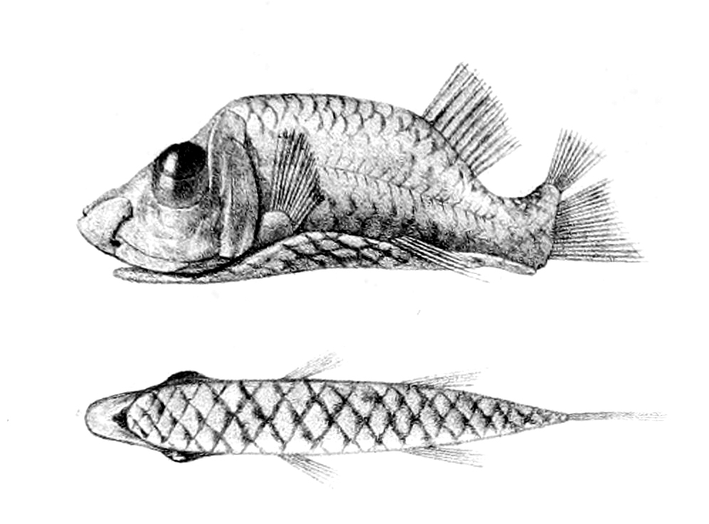 Opisthoproctus soleatus